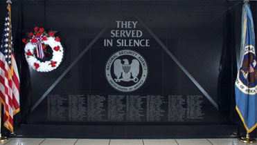 National Cryptologic Memorial "The National Security Agency/Central Security Service Cryptologic Memorial honors and remembers those who gave their lives, "serving in silence," in the line of duty. It serves as an important reminder of the crucial role that cryptology plays in keeping the United States secure and of the courage of these individuals to carry out their mission at such a dear price." -NSA Website